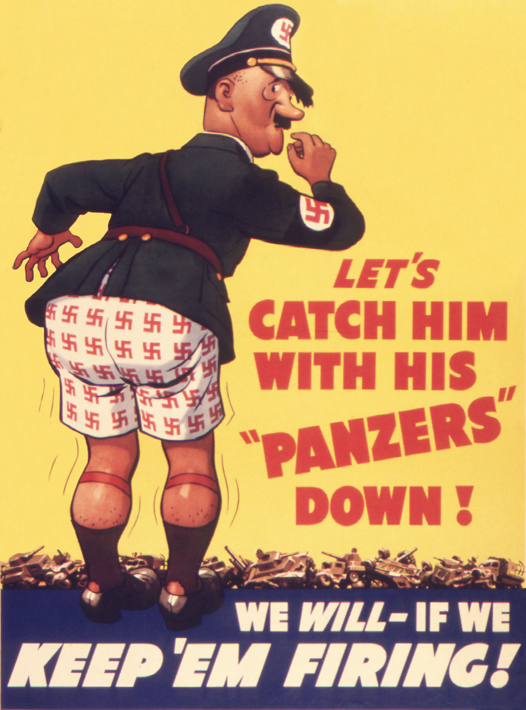 World War II, propaganda poster: Let's catch him with his "Panzers" down! A political cartoon of Adolf Hitler in swastika-covered boxers. Destroyed Panzer tanks litter the background.